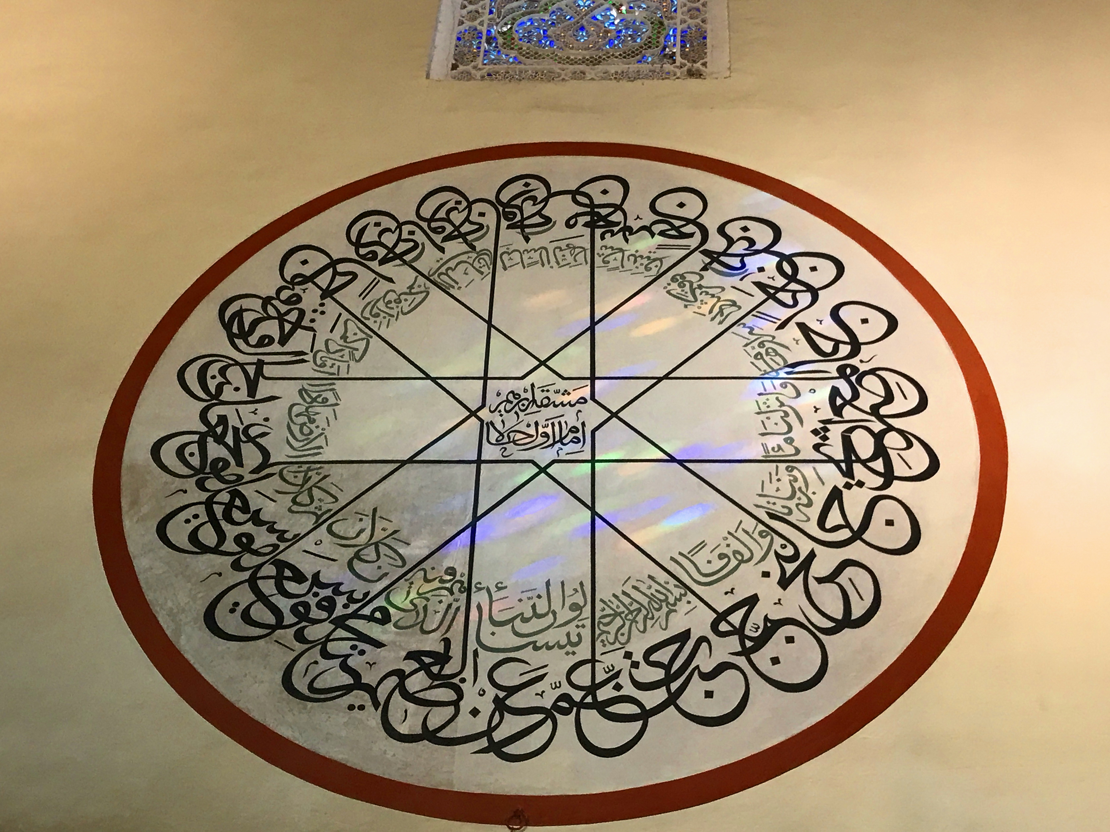 Green Mosque of Bursa, Turkey, 2017. Green Mosque (Turkish: Yeşil Camii, "Yeşil Mosque"), also known as Mosque of Sultan Mehmed I, is a part of the larger complex (a külliye) located on the east side of Bursa, Turkey, the former capital of the Ottoman Turks before they captured Constantinople in 1453. The complex consists of a mosque, türbe, madrasah, kitchen and bath.